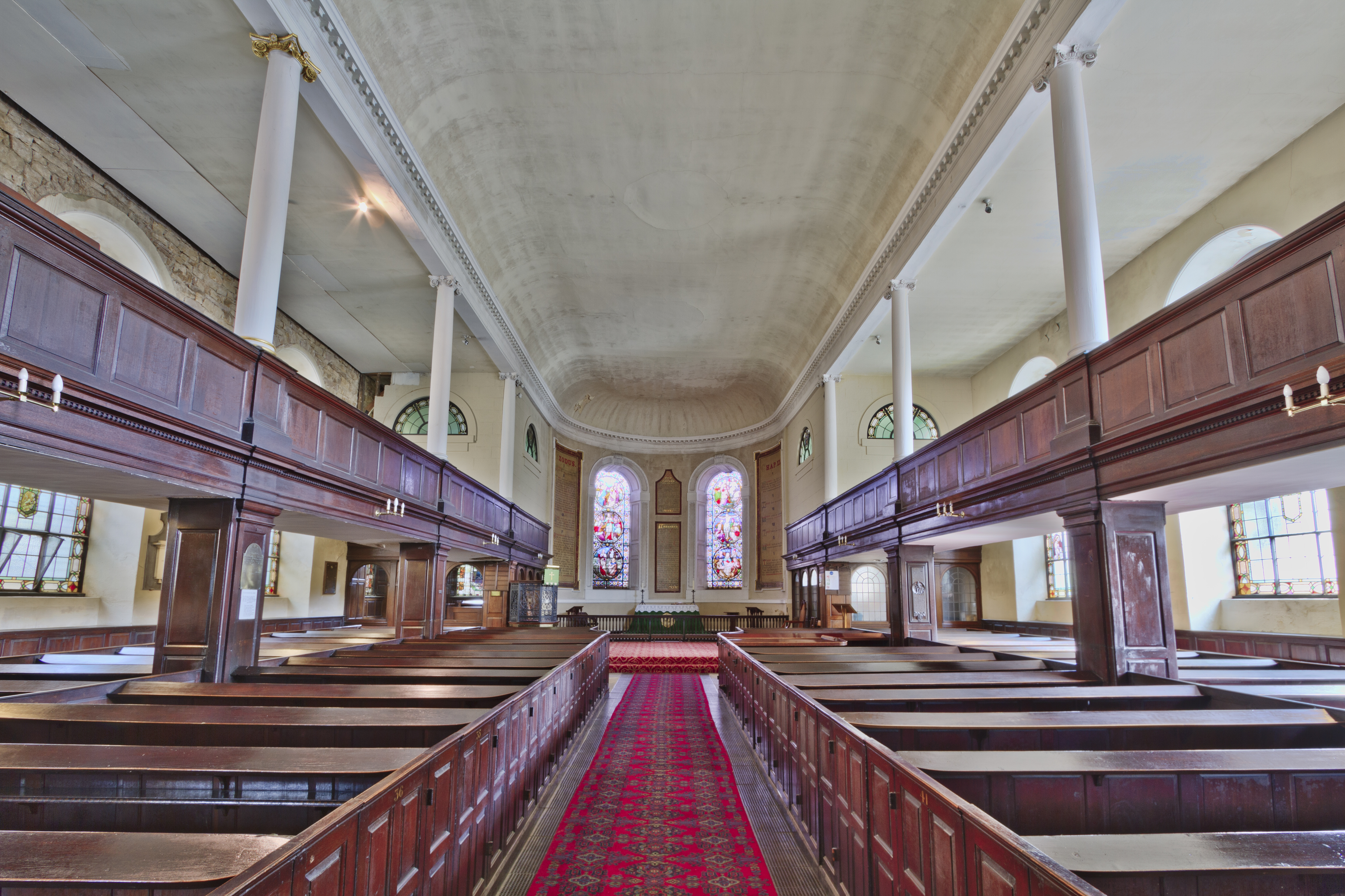 Church of St John